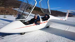 Naarstad Piloting Glider